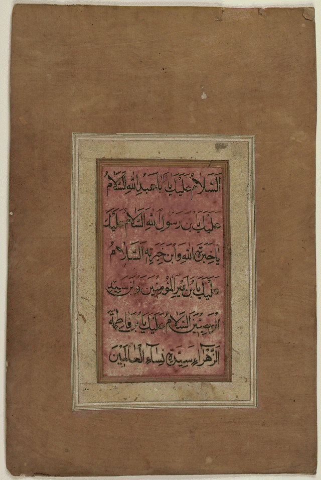 This calligraphic fragment provides repeated Shi'i blessings (al-salam 'alayka) in Arabic directed to Husayn, the Prophet Muhammad's grandson through his son-in-law 'Ali. He is addressed by his many names and epithets, such as the "servant of God" ('abd Allah), "son of the Prophet" (ibn rasul), "goodness of God" (khayrat Allah), "son of the Leader of the Faithful" (ibn amir al-mu'minin), and "son of Fatimah, the radiant" (ibn Fatimah al-zahra'). Script: Indian thuluth.